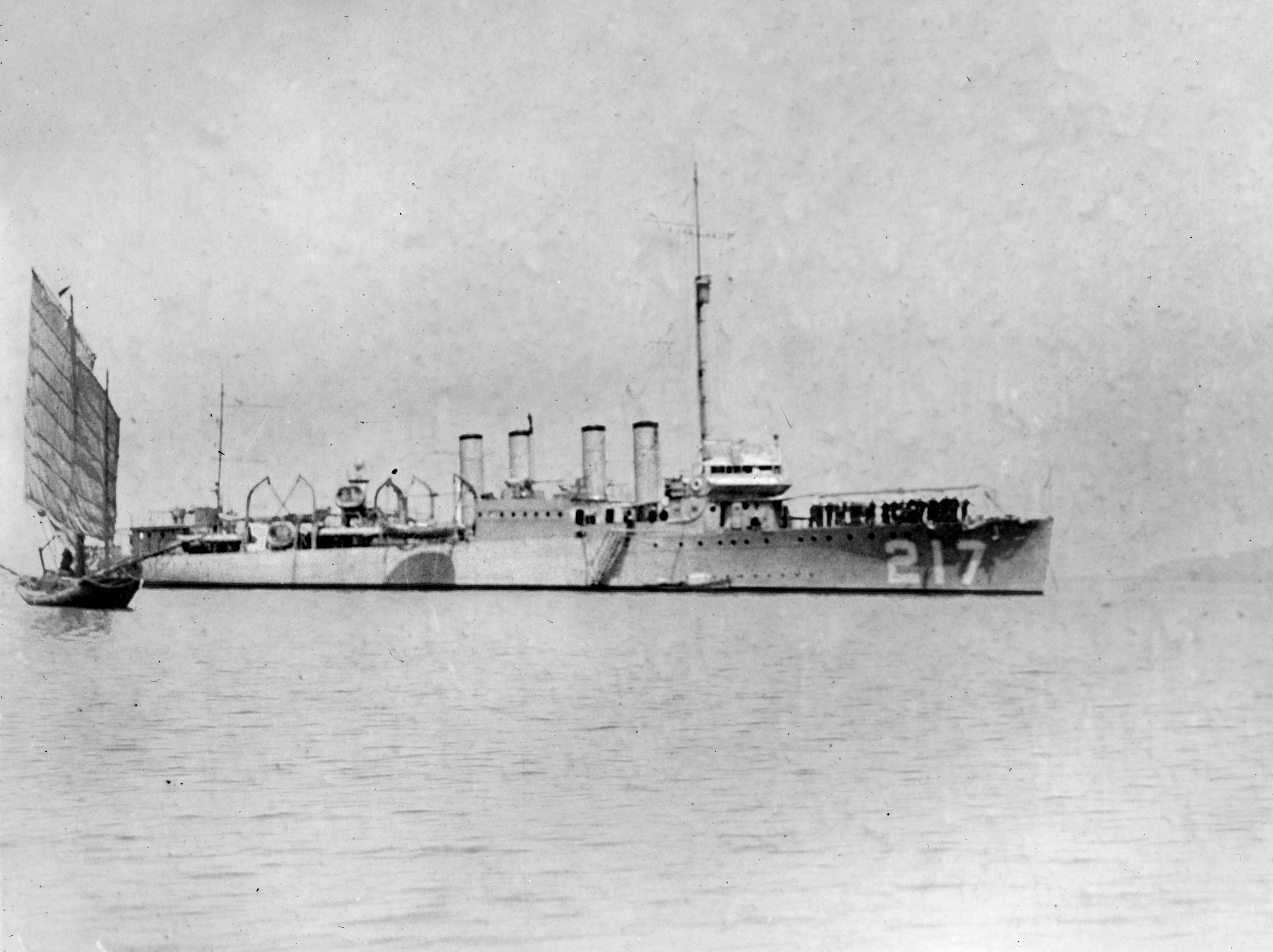 The U.S. Navy destroyer USS Whipple (DD-217) in Asian waters, circa in the early 1920s.